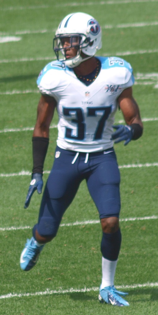 Tennessee Titans cornerback, Tommy Campbell, in 2013.